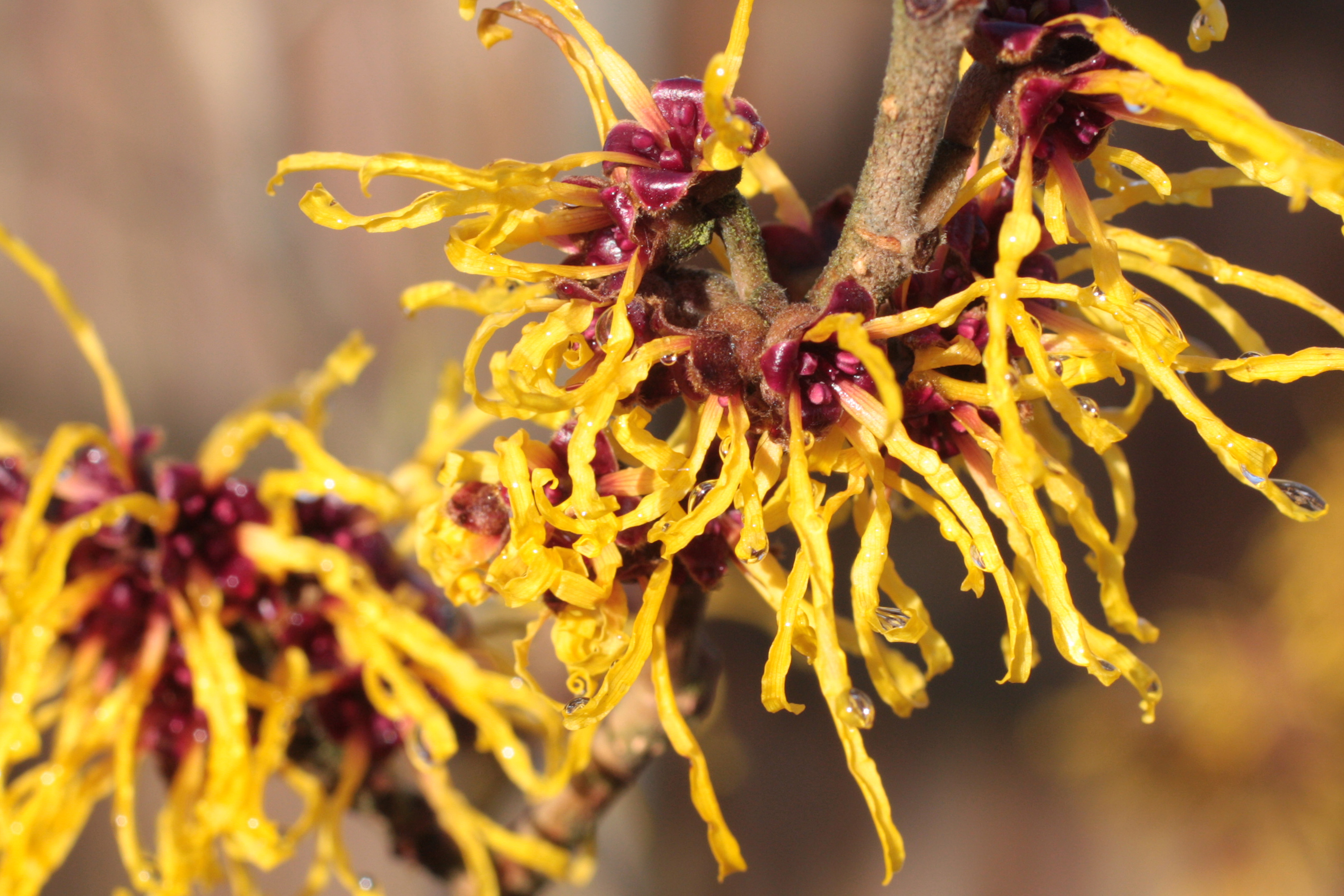 Witch Hazel In Flower UK